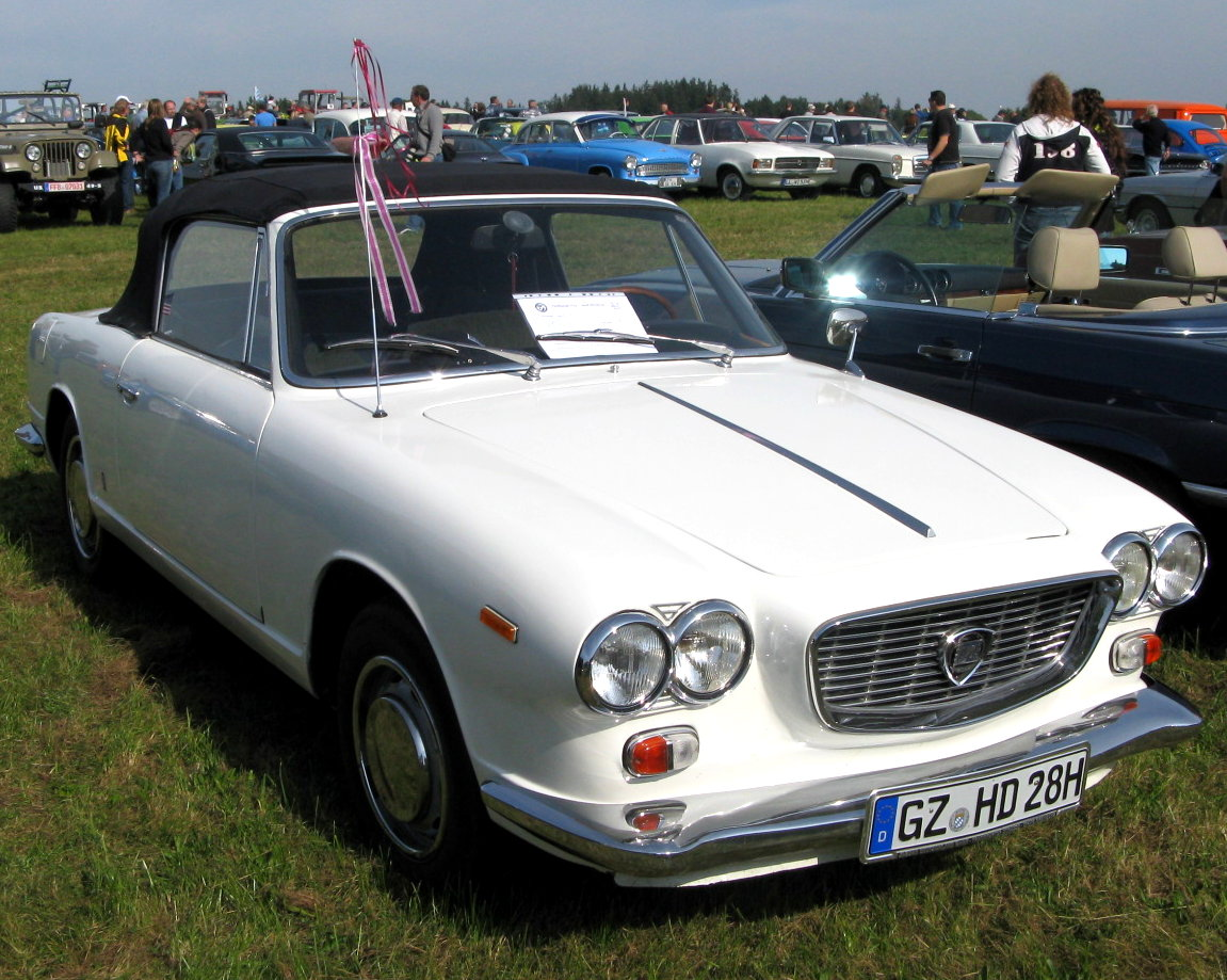 1965 Lancia Flavia at vintage vehicle & airplane show at Jesenwang (Bavaria)